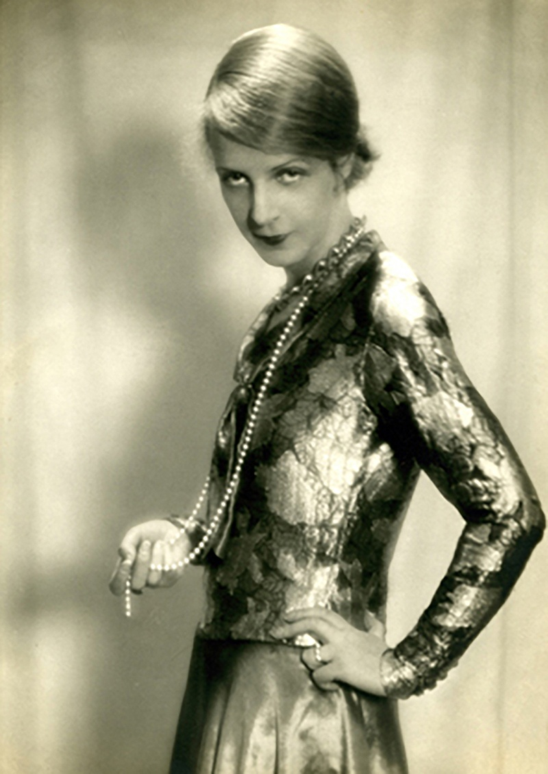 Sibyl Moholy-Nagy (1927)